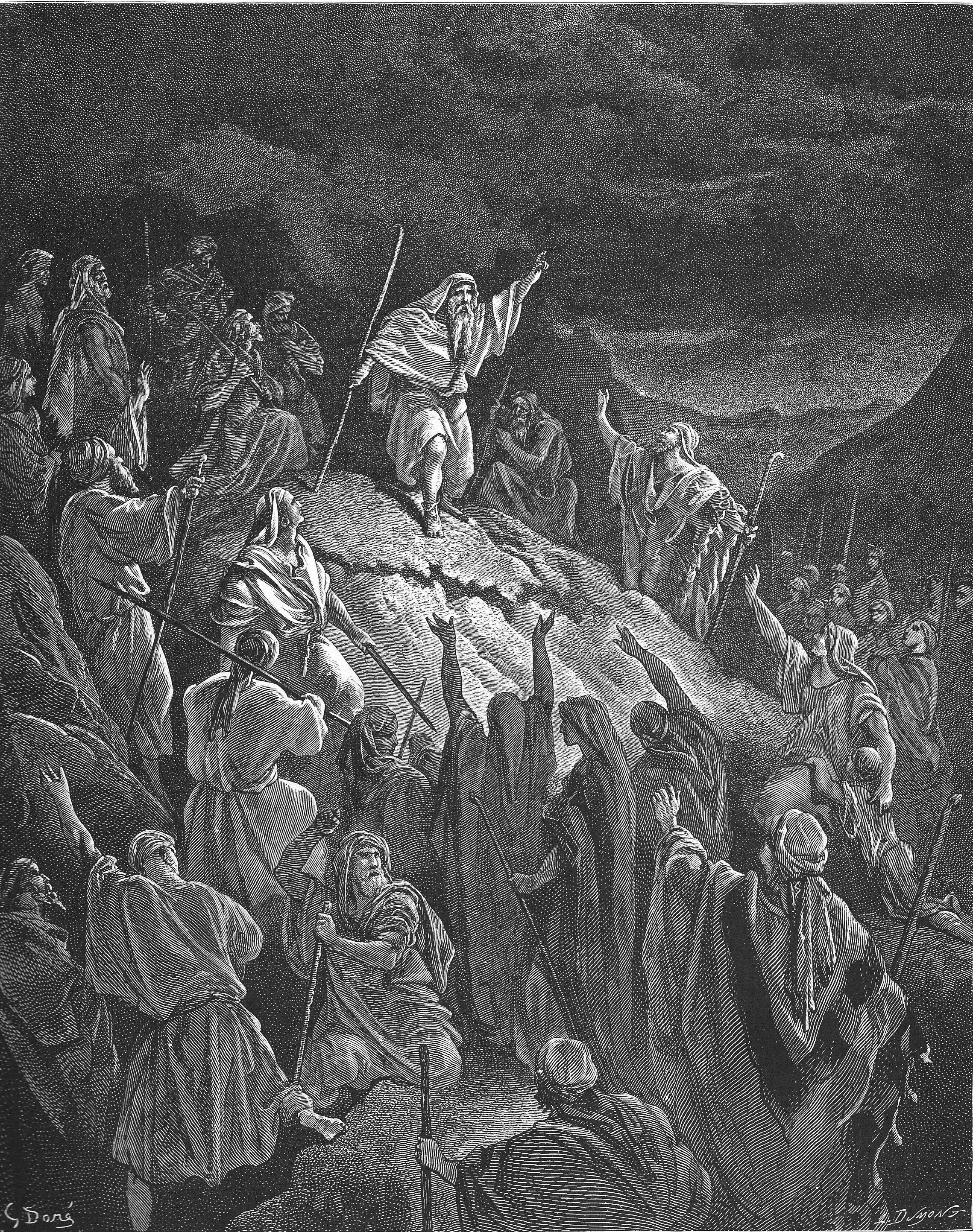 Mattathias Appeals to the Jewish Refugees (1 Macc. 2:42-70)